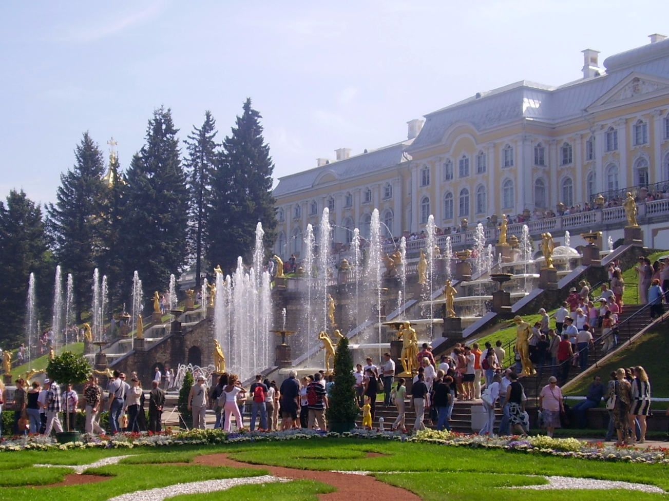 Peterhof: Samson Fountain & Great Cascade. At the background lies the Great Palace